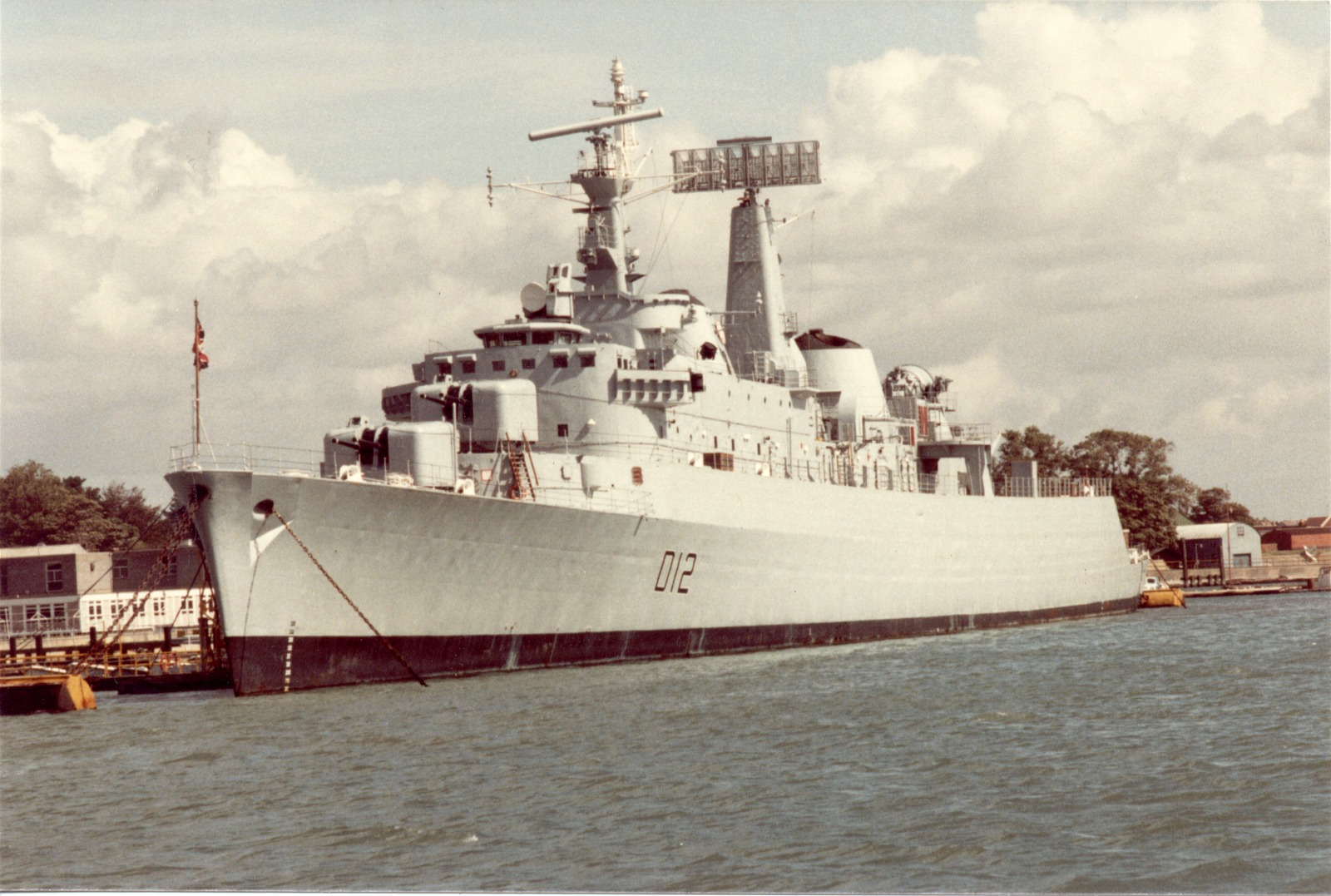 The former HMS Kent (D12), a County class air defence destroyer, as a training hulk in Portsmouth Harbour.